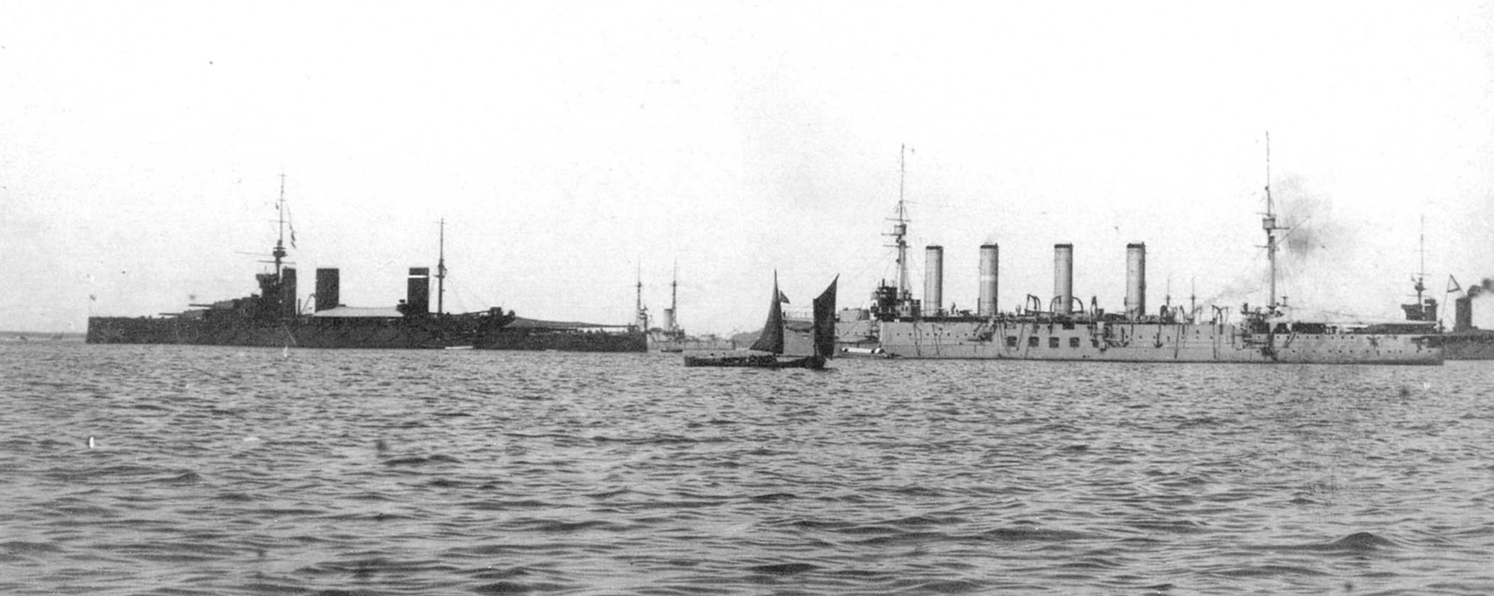 Royal Navy battlecruiser Princess Royal, Imperial Russian battleship Andrei Pervozvannyi, armoured cruiser Admiral Makarov and Royal Navy battlecruiser Queen Mary at Kronstadt roadstead, June 1914.